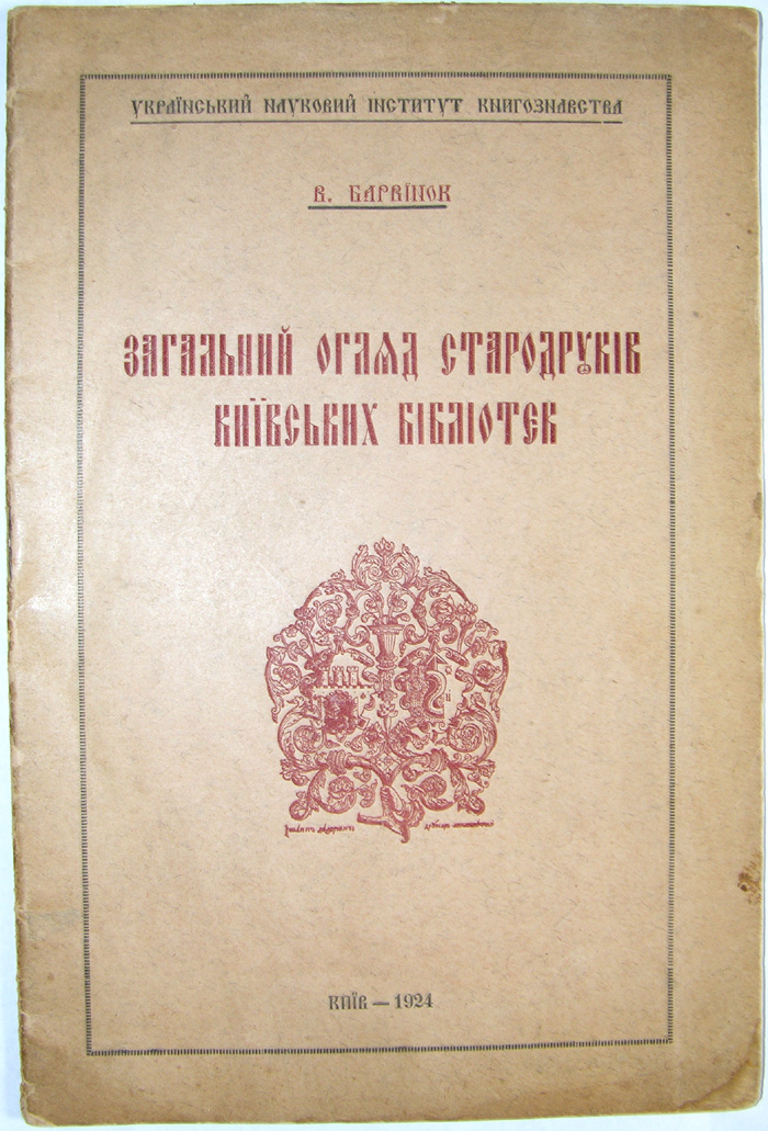 Book written by Volodymyr Barvinok in Kyiv, Ukraine. Published in 1924. Title: "Загальний огляд стародруків київських бібліотек" (Ukrainian), "General survey of old printed books in Kyivan libraries" (English).